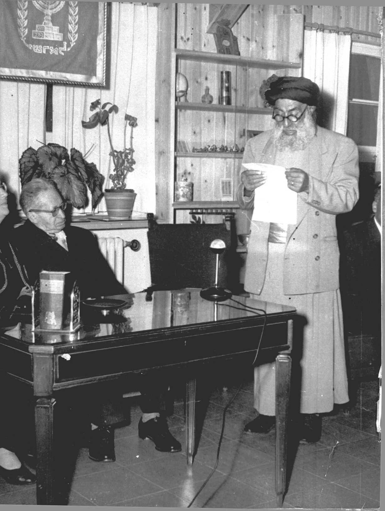 RABBI MOSHE GABAI HEAD OF THE JEWS OF ZACHO IRAQ WHO IMMIGRATED TO ISRAEL IN 1951 TO MAOZ ZION JERUSALEM MAKING A PETION FOR HELP FOR HIS COMMUNITY TO THE THEN PRESIDENT OF ISRAEL YTCHACK BEN ZVI. HE WAS MY WIFES GRANFATHER